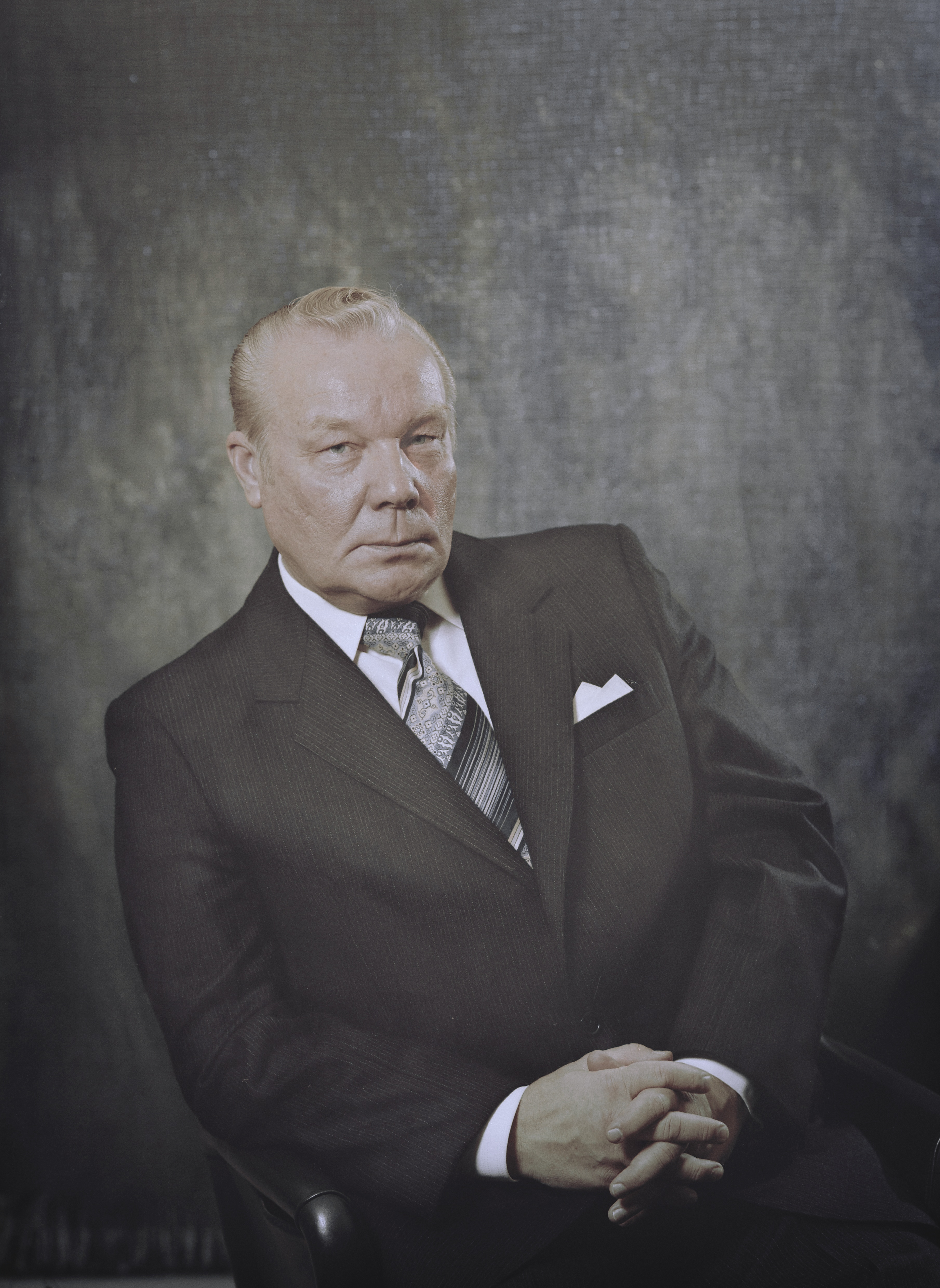 Photograph of the Finnish psychologist and professor R. Olavi Viitamäki (1918–2001).